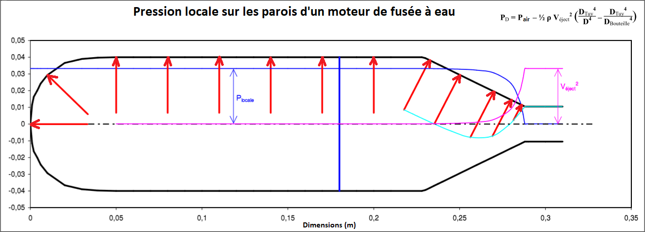 Diagram showing local pressures inside a water rocket engine maintained at the test bench and without taking into account the height of the water column. The aim here is to show how, in application of the Bernoulli principle, the local static pressure decreases on the wall at the approach of the nozzle. It is this very localized reduction of the pressure on the wall which explains that the thrust of such an engine is 2PStuy and not simply PStuy.